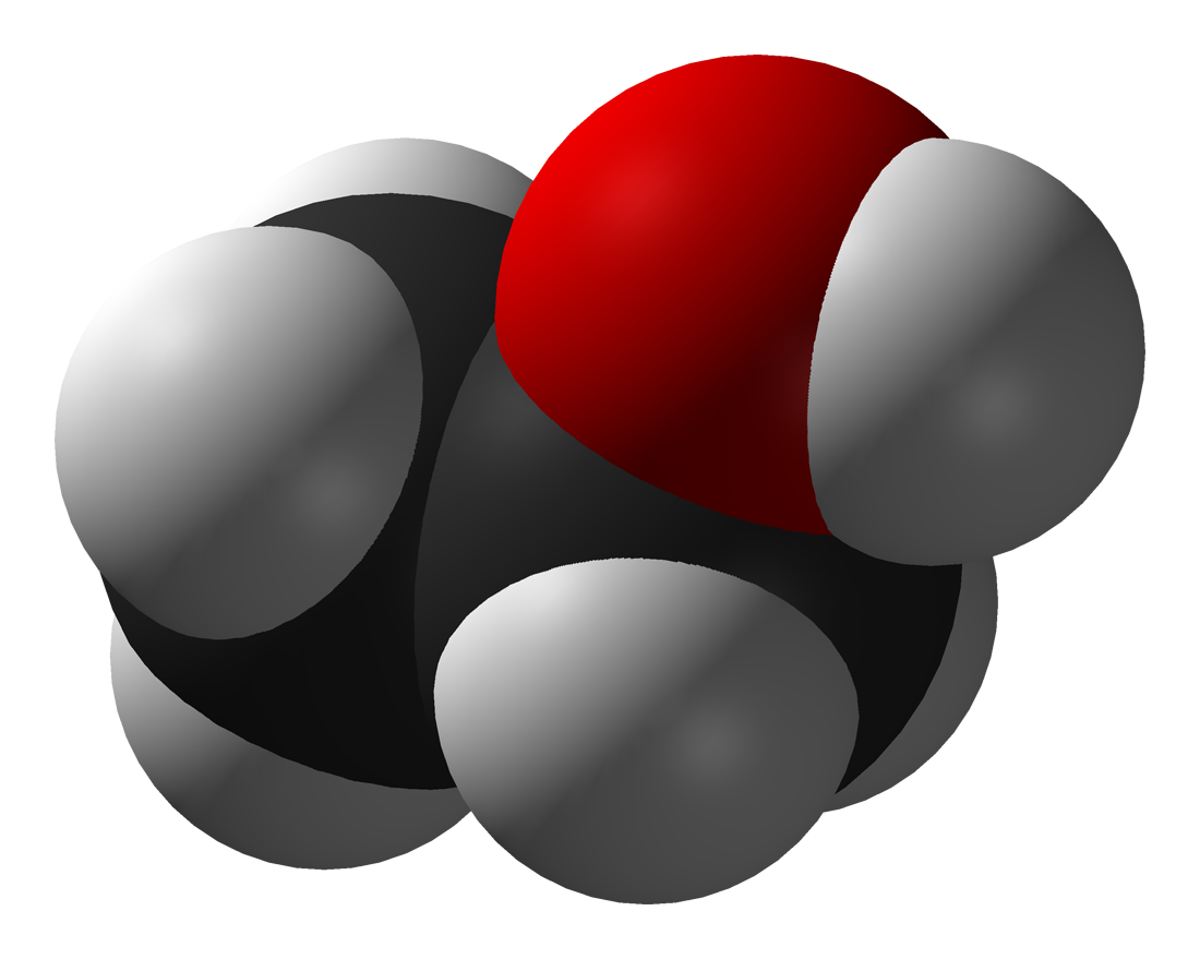 Space-filling model of the ethanol molecule, C2H5OH.